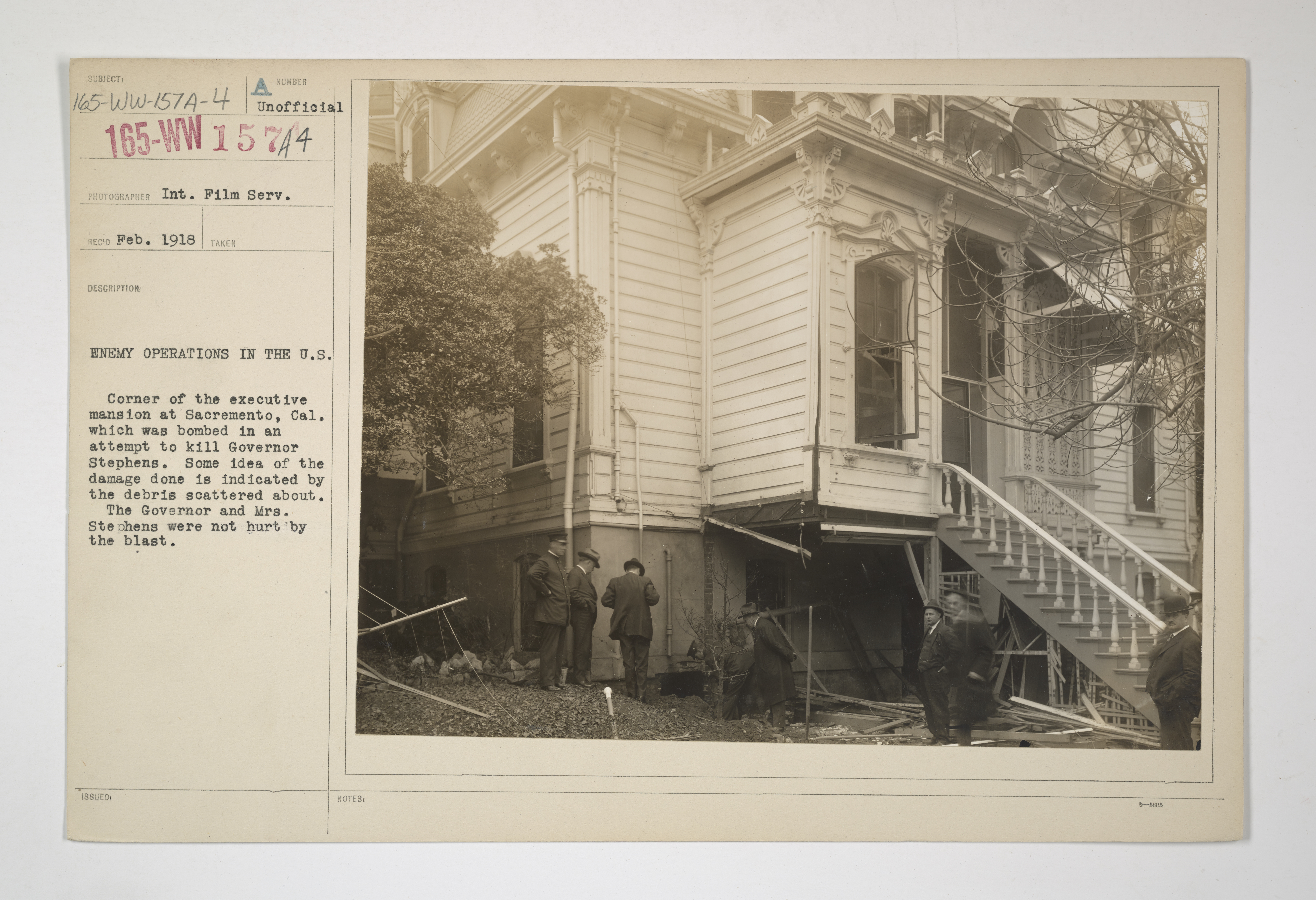 Scope and content: Date Taken: 2/1/1918 Photographer: International Film Service